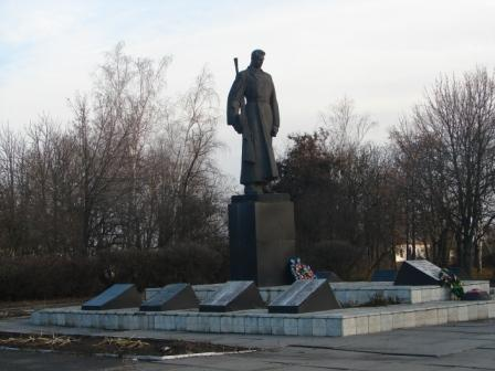 Братська_могила_радянських_воїнів_в_селищі_Оржиця